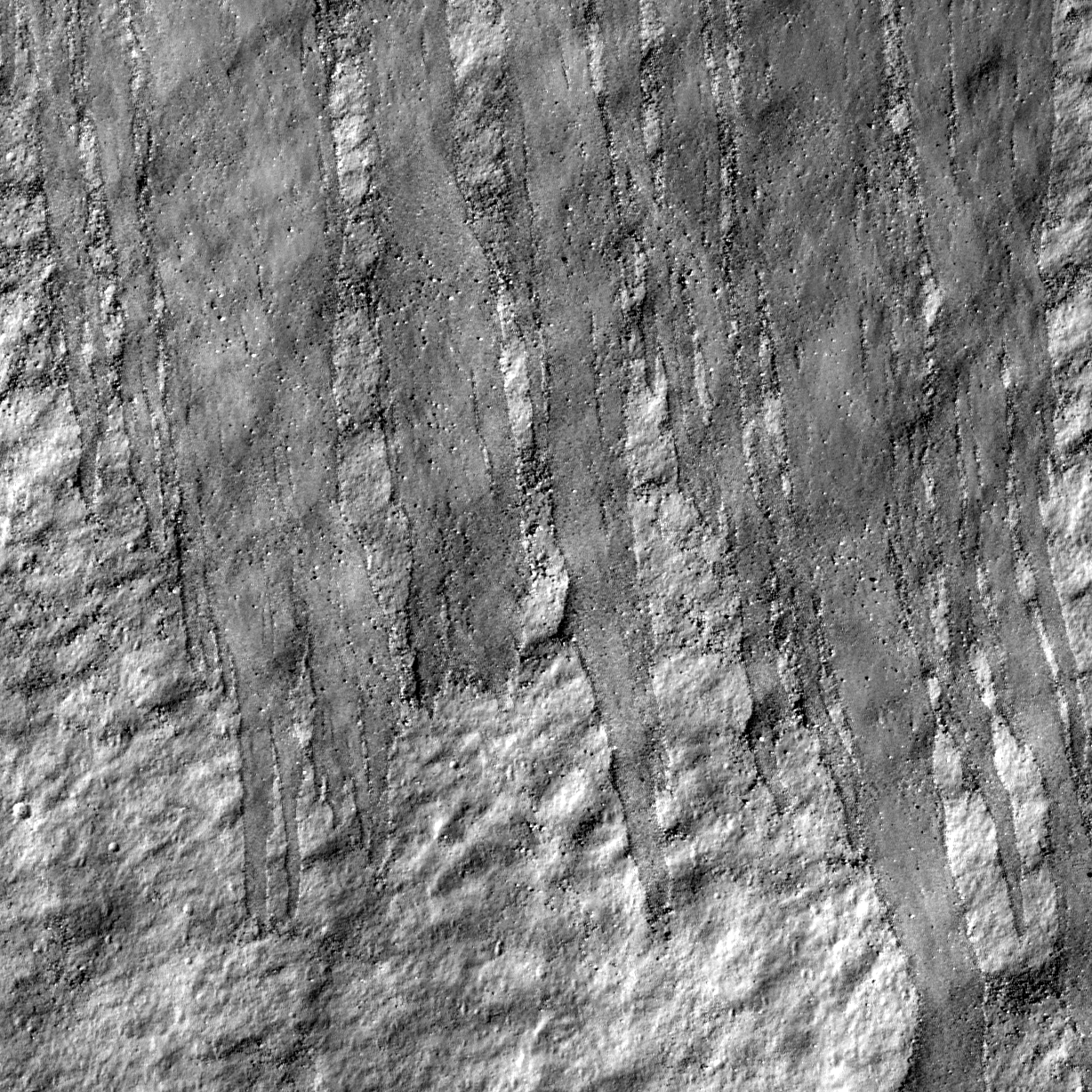 Northern slope inside Robinson crater. LROC NAC M114259768R, 0.52 m/pixel, image width is 620 m, sun light is from right side. Slope direction is from top to the bottom of the image [NASA/GSFC/Arizona State University].